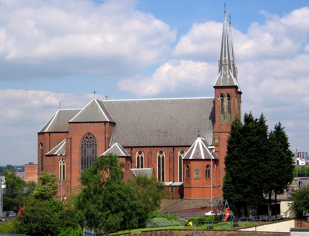 St Chad's Cathedral in Birmingham. Photo by G-Man * June 2006